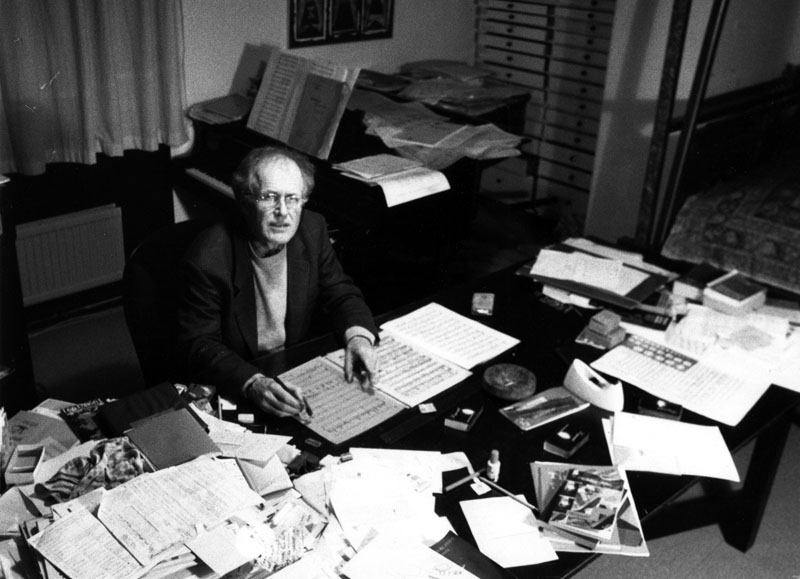 M.W.Bon, componist